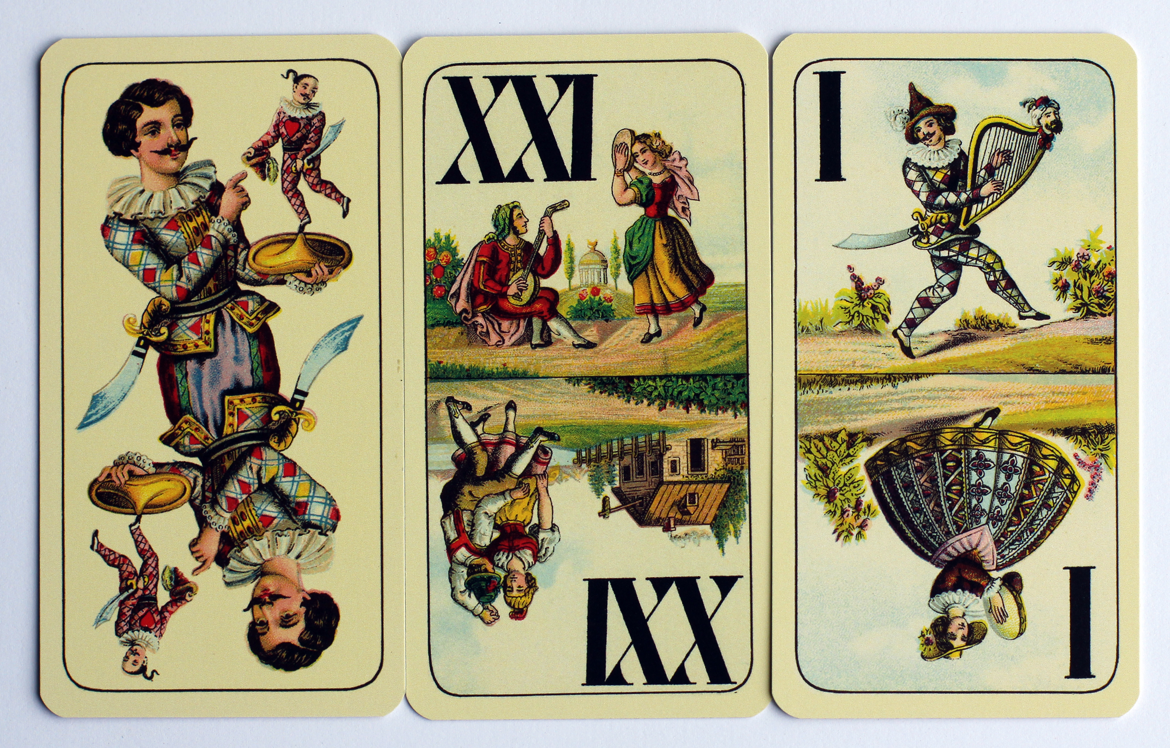 The three Trull cards - the Gstieß, Mond and Pagat - from an Austrian Tarock Type A pack.